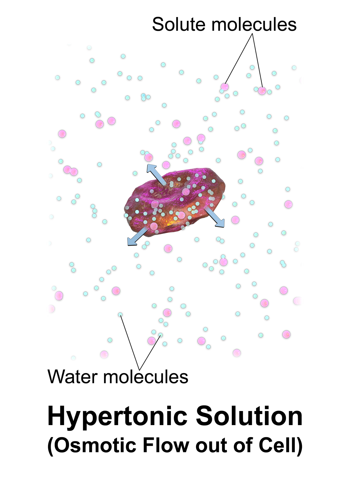 Hypertonic Solution. See a related animation of this medical topic.